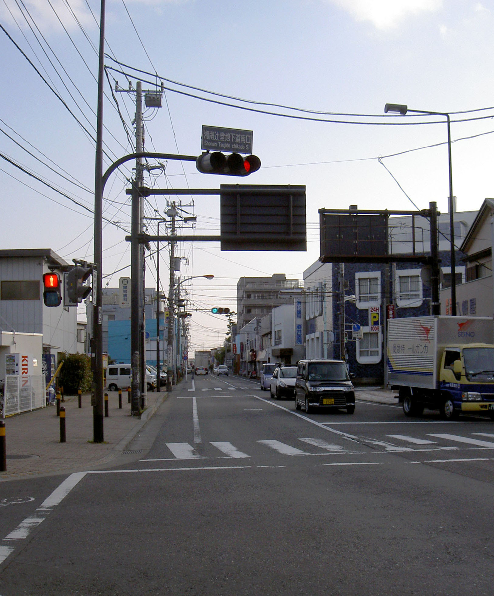 Kanagawa prefectural road route 308 ja: 神奈川県道308号辻堂停車場辻堂線